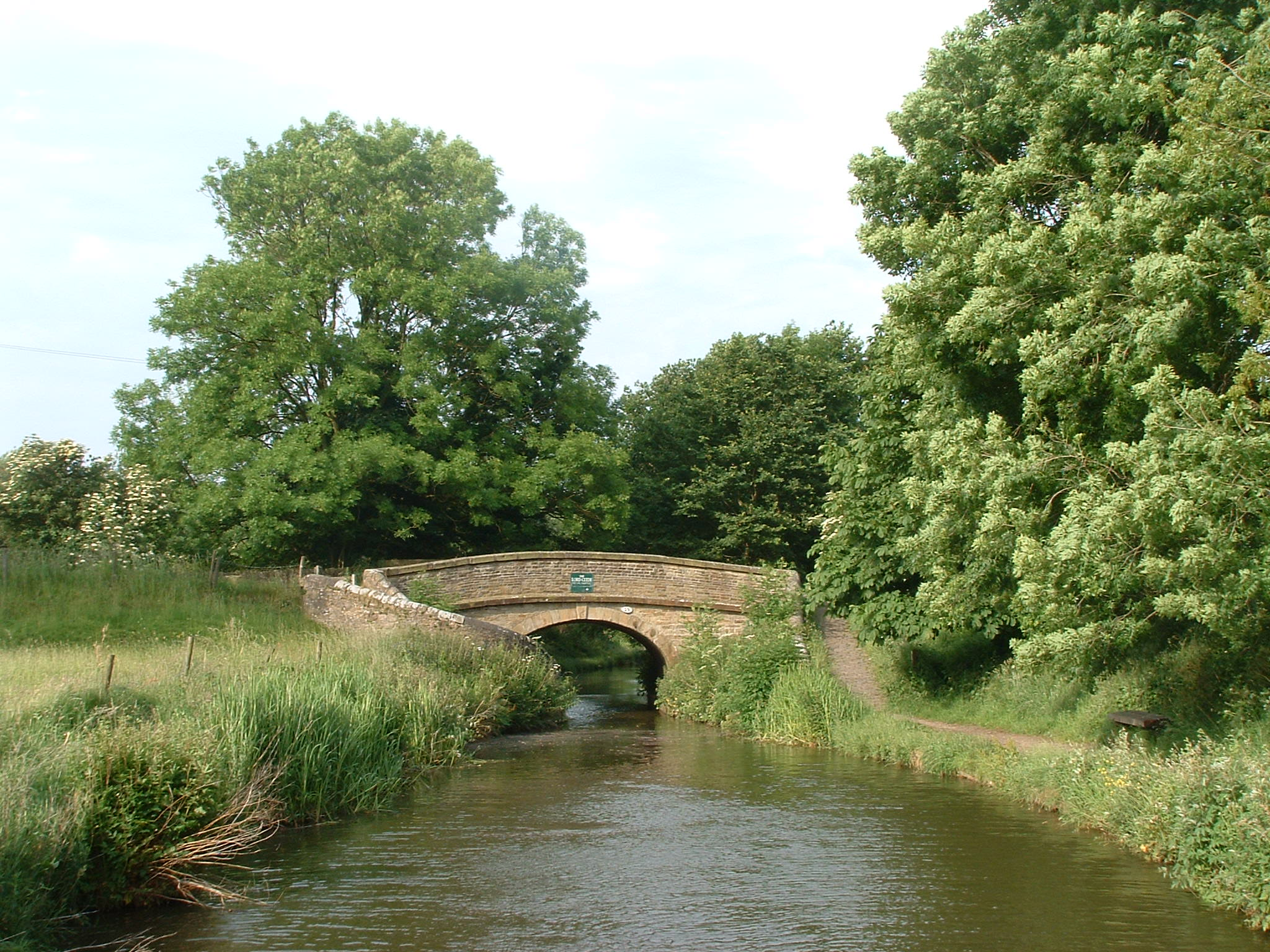 A Snake-bridge on the Macclesfield canal, at Clarke Lane in Kerridge.